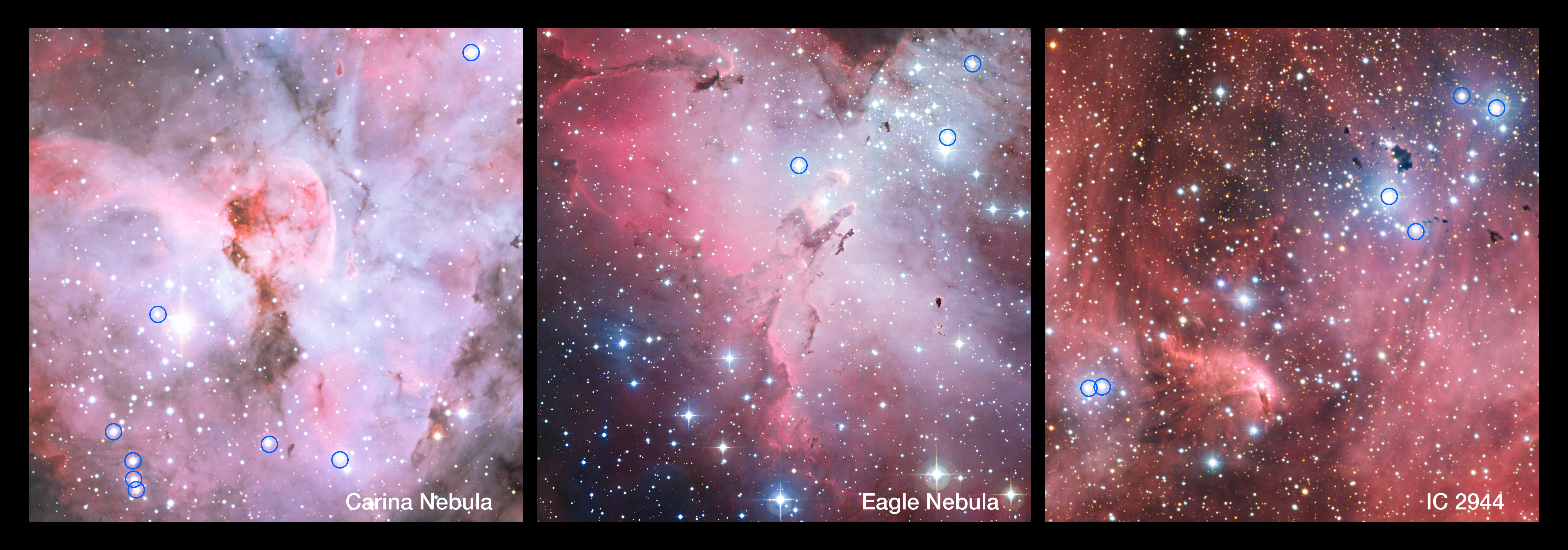 These spectacular panoramic views show parts of the Carina Nebula (left), the Eagle Nebula (centre) and IC 2944 (right). These are all regions of star formation that contain many hot young stars including several bright stars of spectral type O. The O stars in these star-forming regions that were included in a new survey using ESO’s Very Large Telescope are marked with circles. Many of these stars were found to be close pairs and such binaries often transfer mass from one star to the other. The pictures were created from images taken with the Wide Field Imager on the MPG/ESO 2.2-metre telescope at ESO’s La Silla Observatory in Chile.